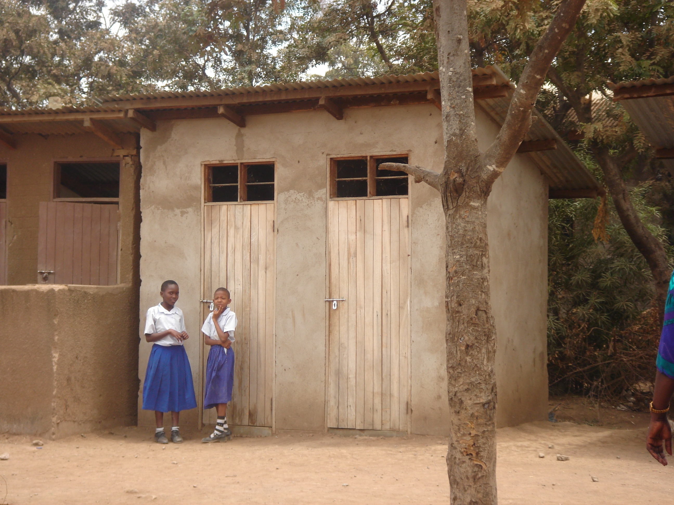 School toilet in Tanzania (2006) source: Marni Sommer